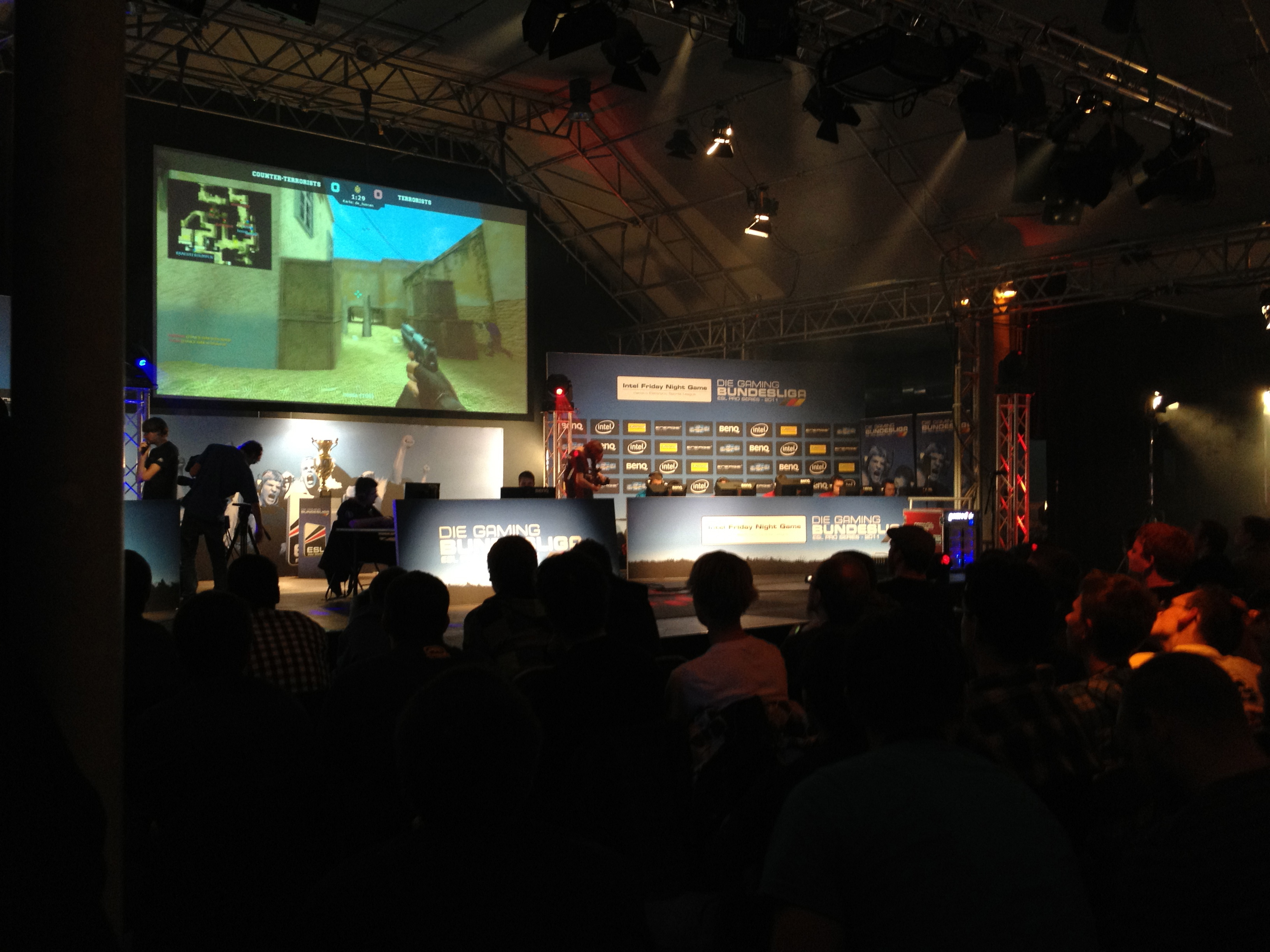 eSport Event Intel Friday Night Game in Munich Tonhalle by ESL at 20th November 2011 - on Screen Counter Strike mTw vs mousesports